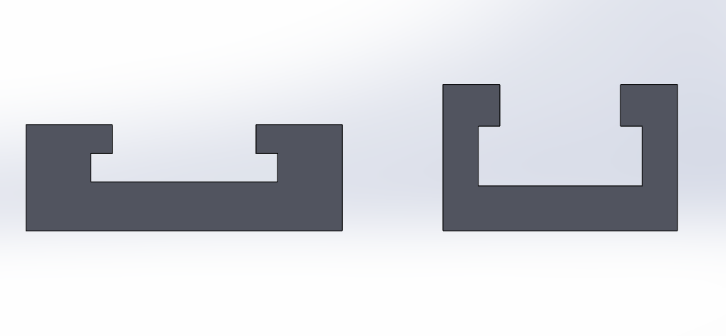 Drawing comparing equipment rails: Anschutz/UIT rail to the left, Freeland rail to the right